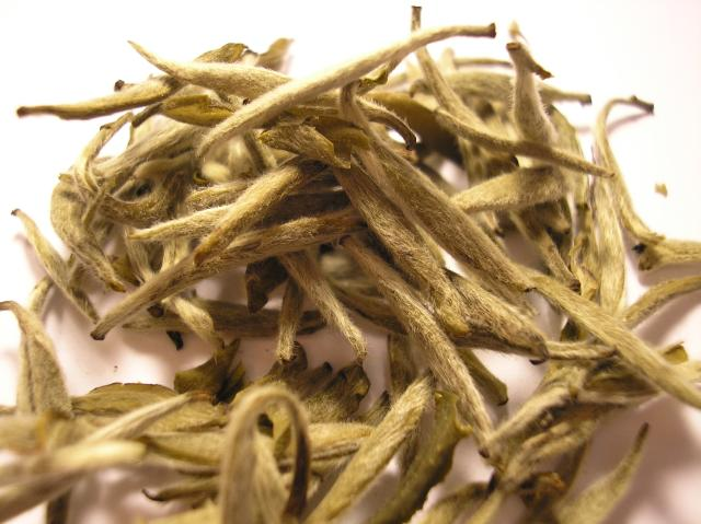 Fuding Bai Hao Yin Zhen. Scale is size of leaf approx 30mm.